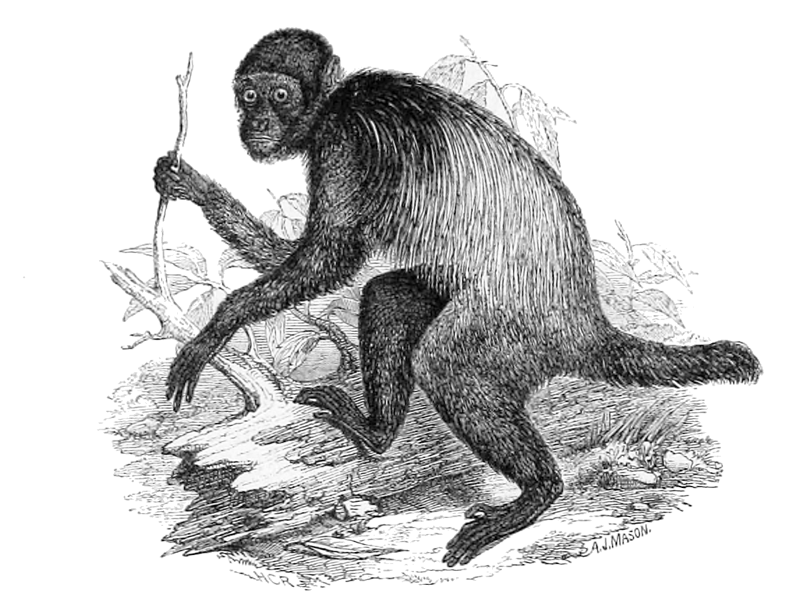 Black-headed Uakari